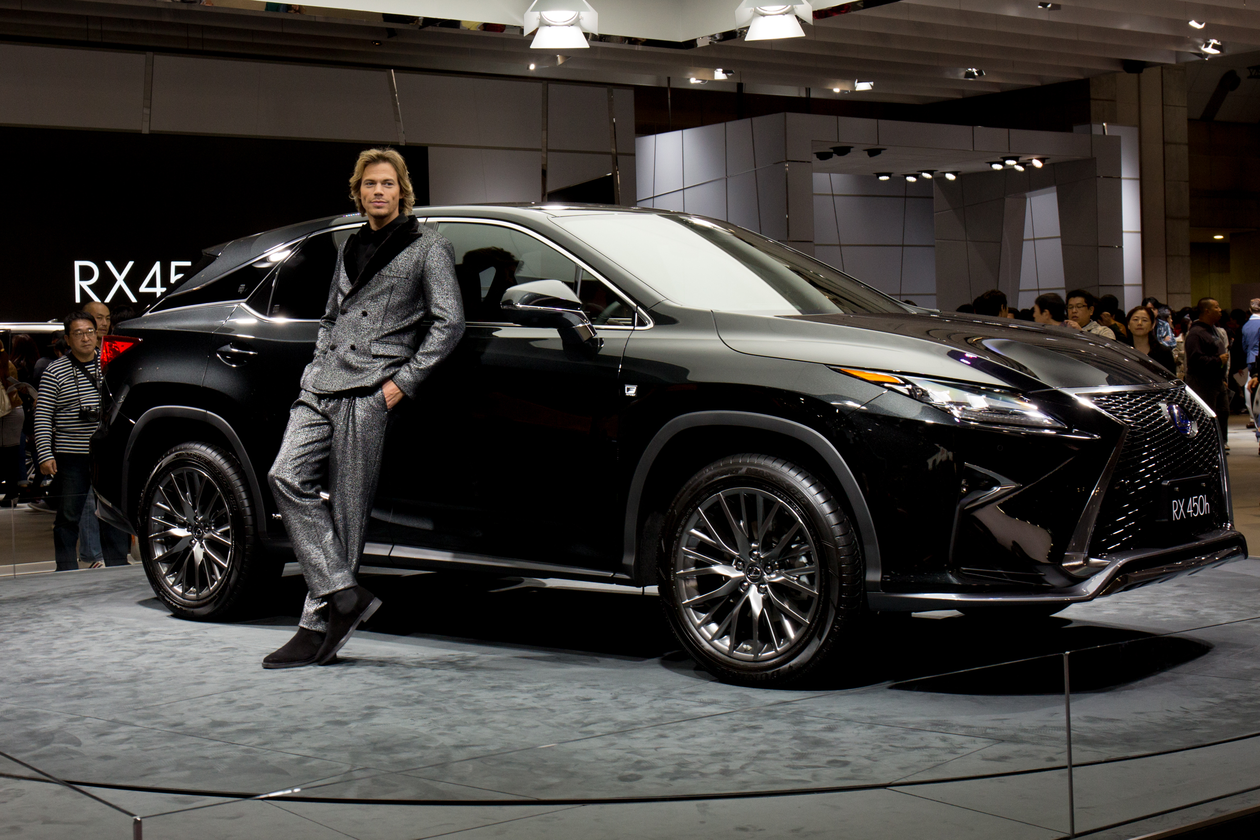 Tokyo Motor Show 2015: Lexus RX450h (AL20)